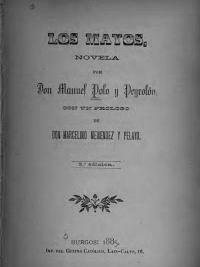 cover of 1885 edition of the Los Mayos novel by Manuel Polo y Peyrolon